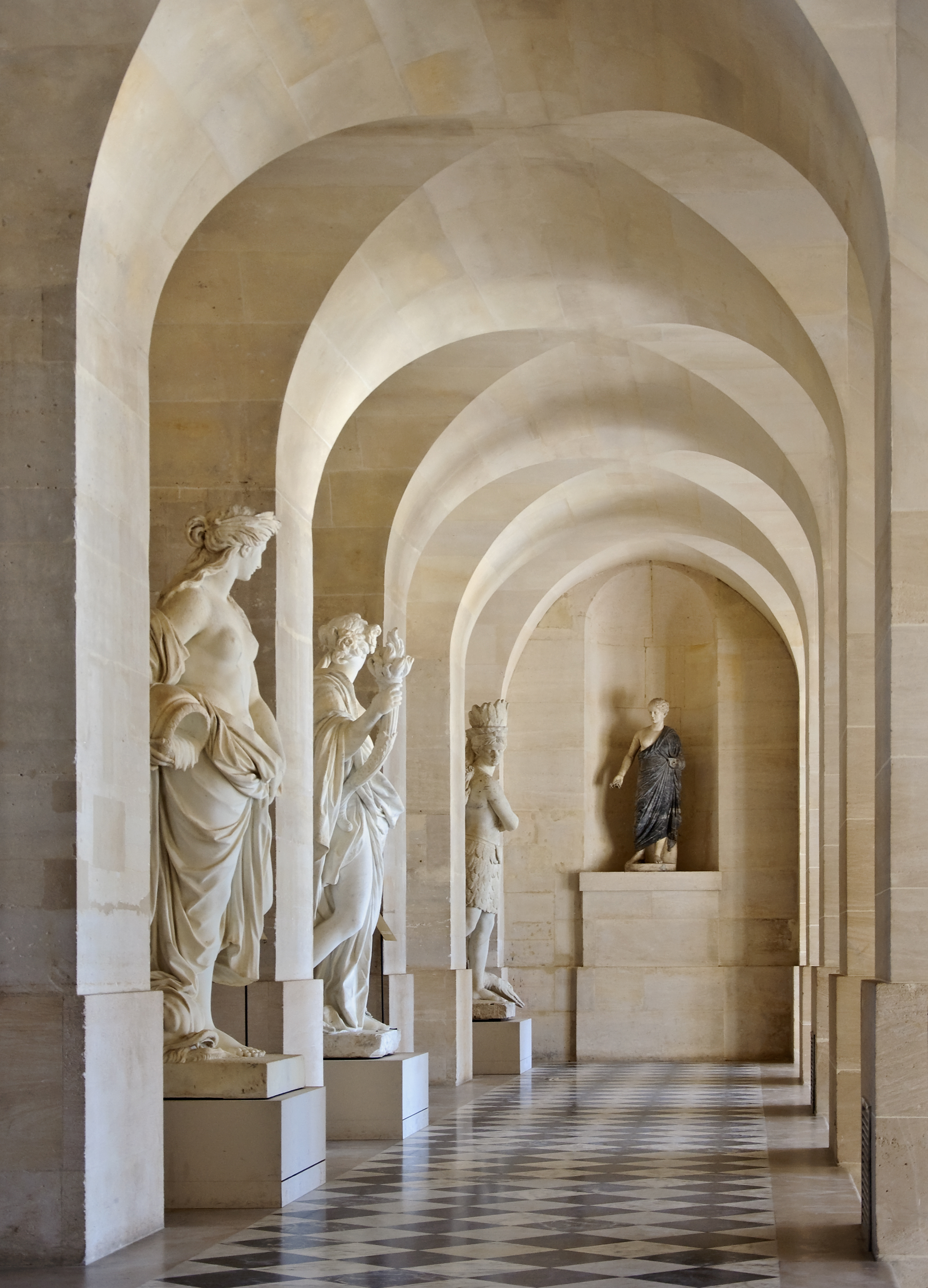 A view of the Galerie Basse, Palace of Versailles. The originals of some of the statues ordered in the Grande Commande are preserved in that place. Here, along the gallery: Water, by Pierre Ier Legros, Night, by Jean Raon, America, by Gilles Guérin.At the end of the gallery stands an ancient Roman statue of the goddess Flora.